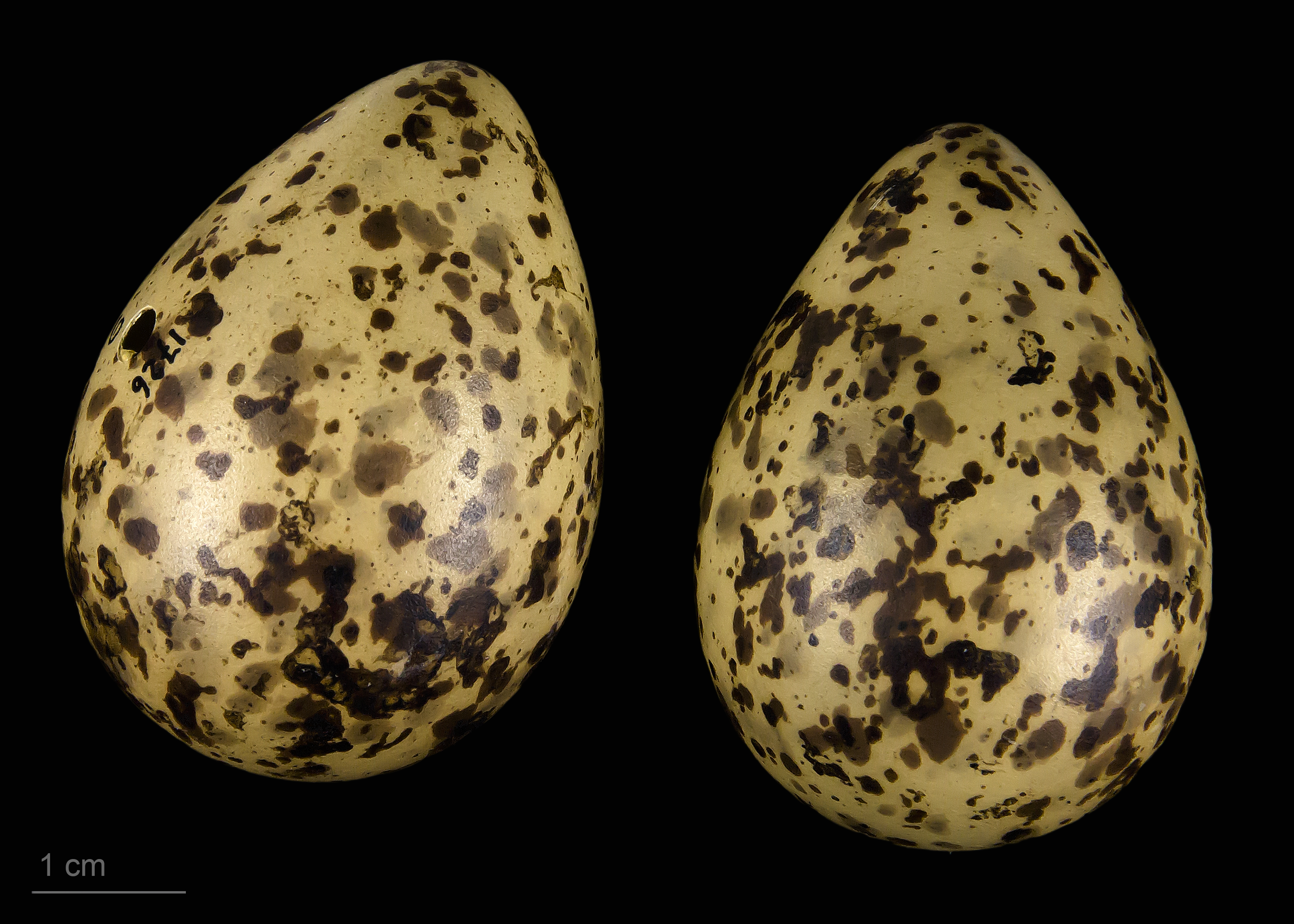 Eggs of ruff Two specimens of the same spawn ; collection of Jacques Perrin de Brichambaut.